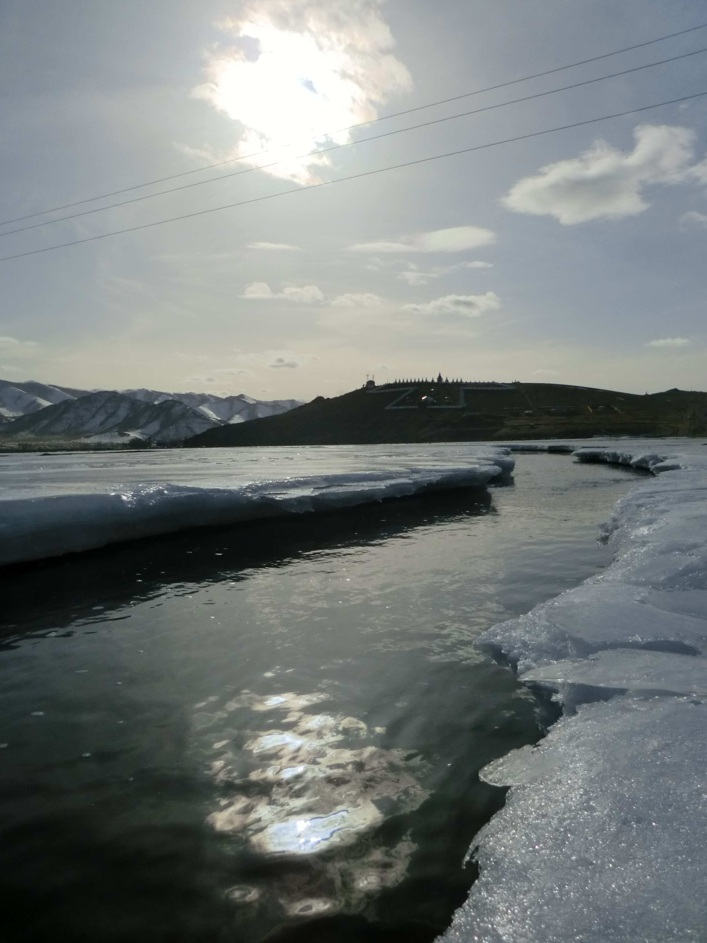 A view from the Chigestai River outside of Baats ger district in Uliastai city, Zavkhan aimag, mongolia.